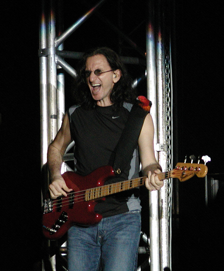 Geddy Lee, bassist and vocalist for Rush, in concert in Milan, Italy.